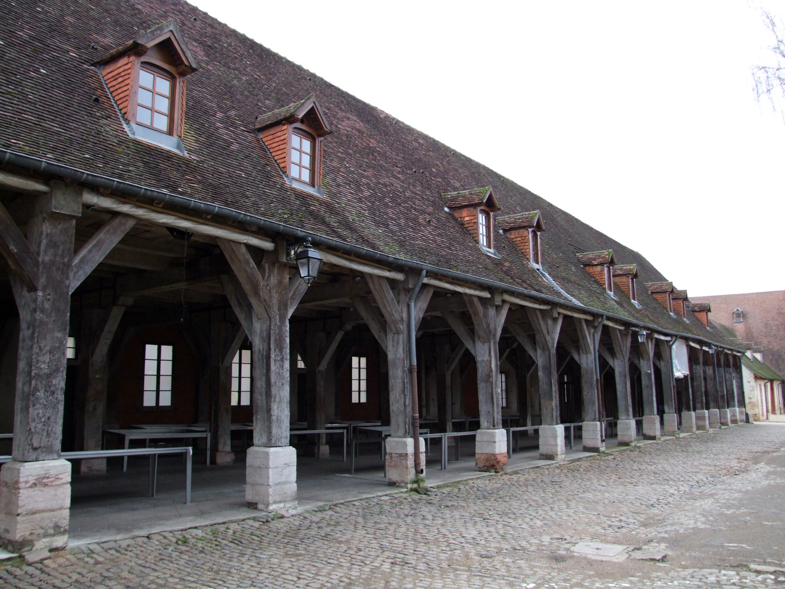 Auxonne, Burgundy, FRANCE